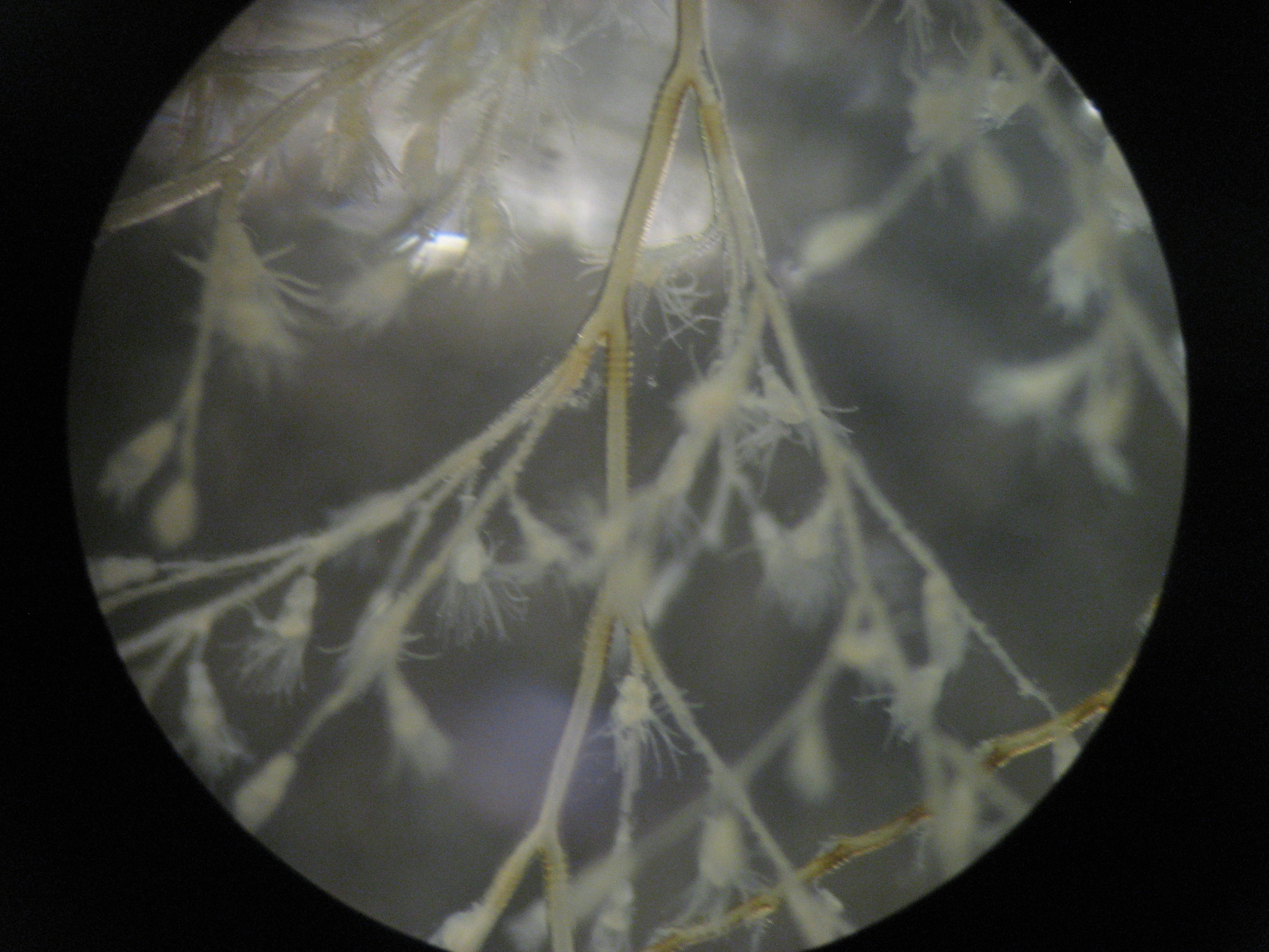 Obelia colony (hydrozoa)